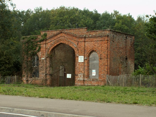 Old gatehouse at High Wood, Gt. Dunmow, Essex. This ruined brick gatehouse stands at the entrance to High Wood. Information about it is not easy to find.